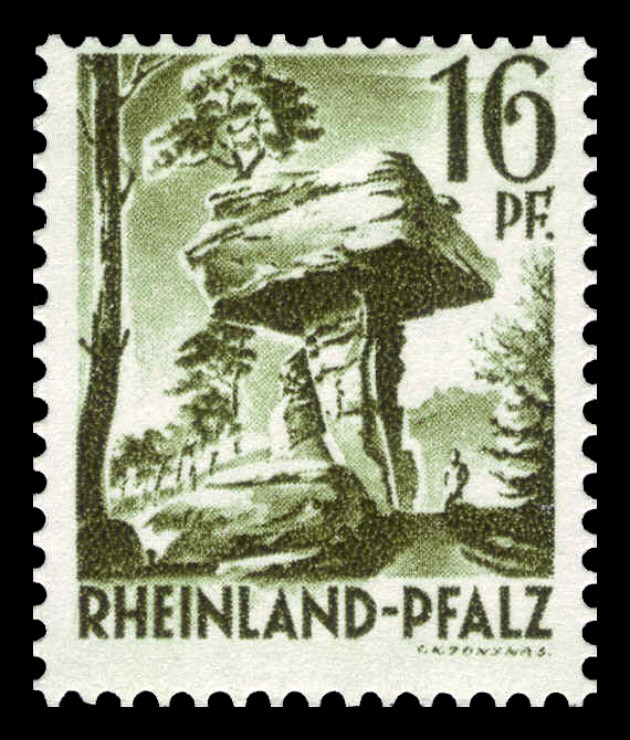 French occupied zone, Rhineland-Palatinate, persons and views of Rhineland-Palatinate (I) Ausgabepreis: 16 Pfennig First Day of Issue / Erstausgabetag: Oktober 1947 Michel-Katalog-Nr: 6 (Französische Besetzungszone, Rheinland-Pfalz)